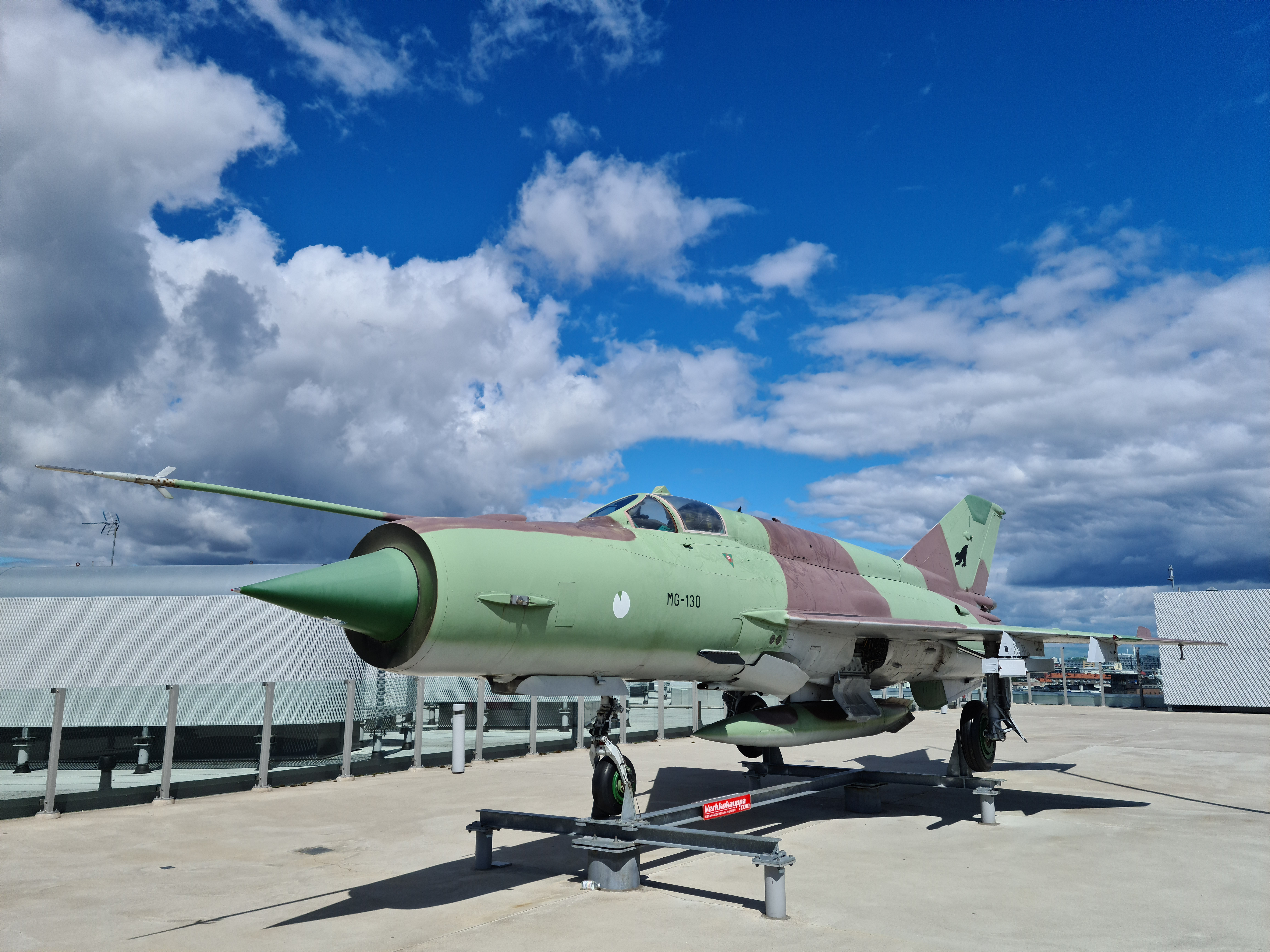 Retired Finnish MiG-21 BIS fighter plane on top of Verkkokauppa department store in Helsinki (Tyynenmerenkatu 11).